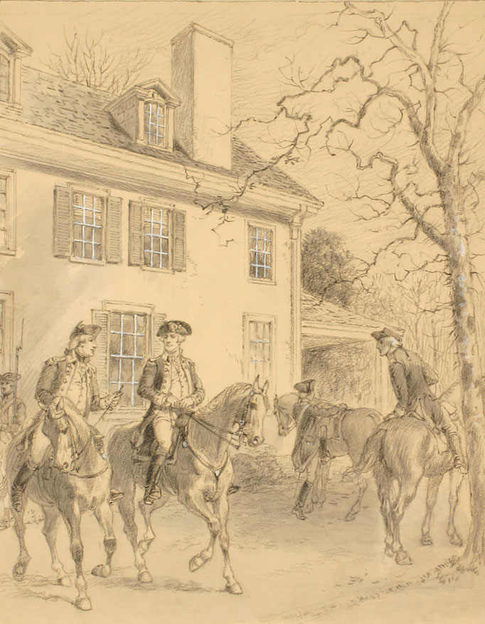 Henry Alexander Ogden, Washington at the George Emlen House, Whitemarsh, Pennsylvania From the collection of the New-York Historical Society The Emlen House was built by George Emlen III (1718–1776), part of a prominent Quaker family in Philadelphia.[1] It was owned by his son George Emlen (circa 1741–1812) when it served as Washington's headquarters in November and December 1777.[2]